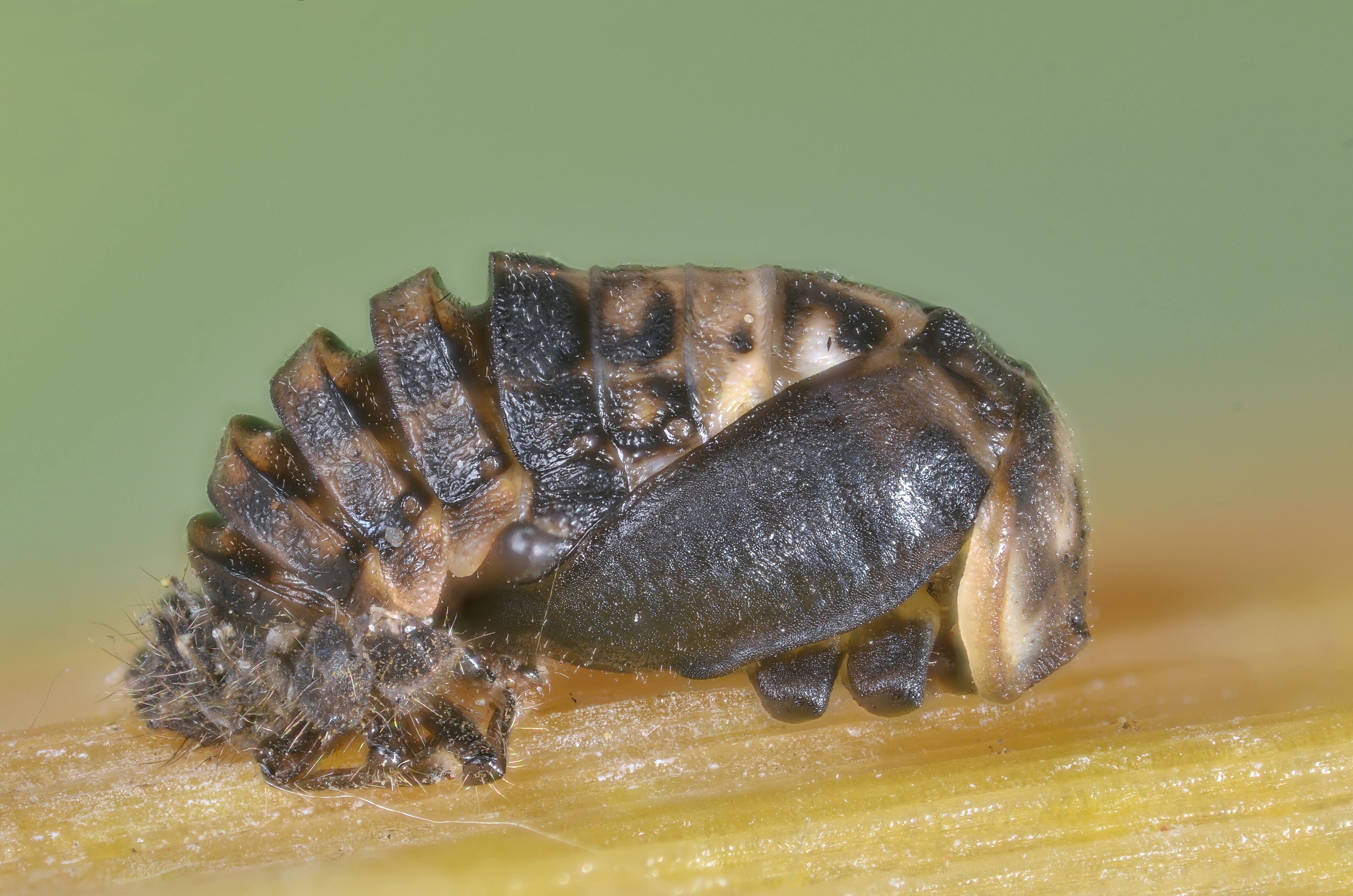 Pupae of the ladybird Anisosticta novemdecimpunctata Focus stack of 23 pictures Componon 28 mm at f/4 reversed on extension tubes